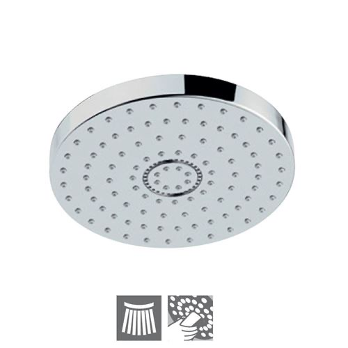 The image is freely licensed and can be used anywhere as the picture was photographed by me